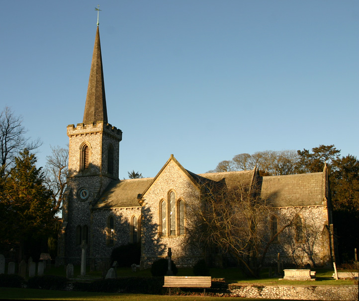 Stanmer parish church, Stanmer, East Sussex, seen from the south